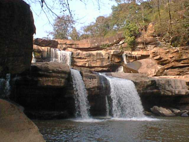 Namtok Kaeng Sopha from below, taken by Kevin Borland, January 4, 2001.